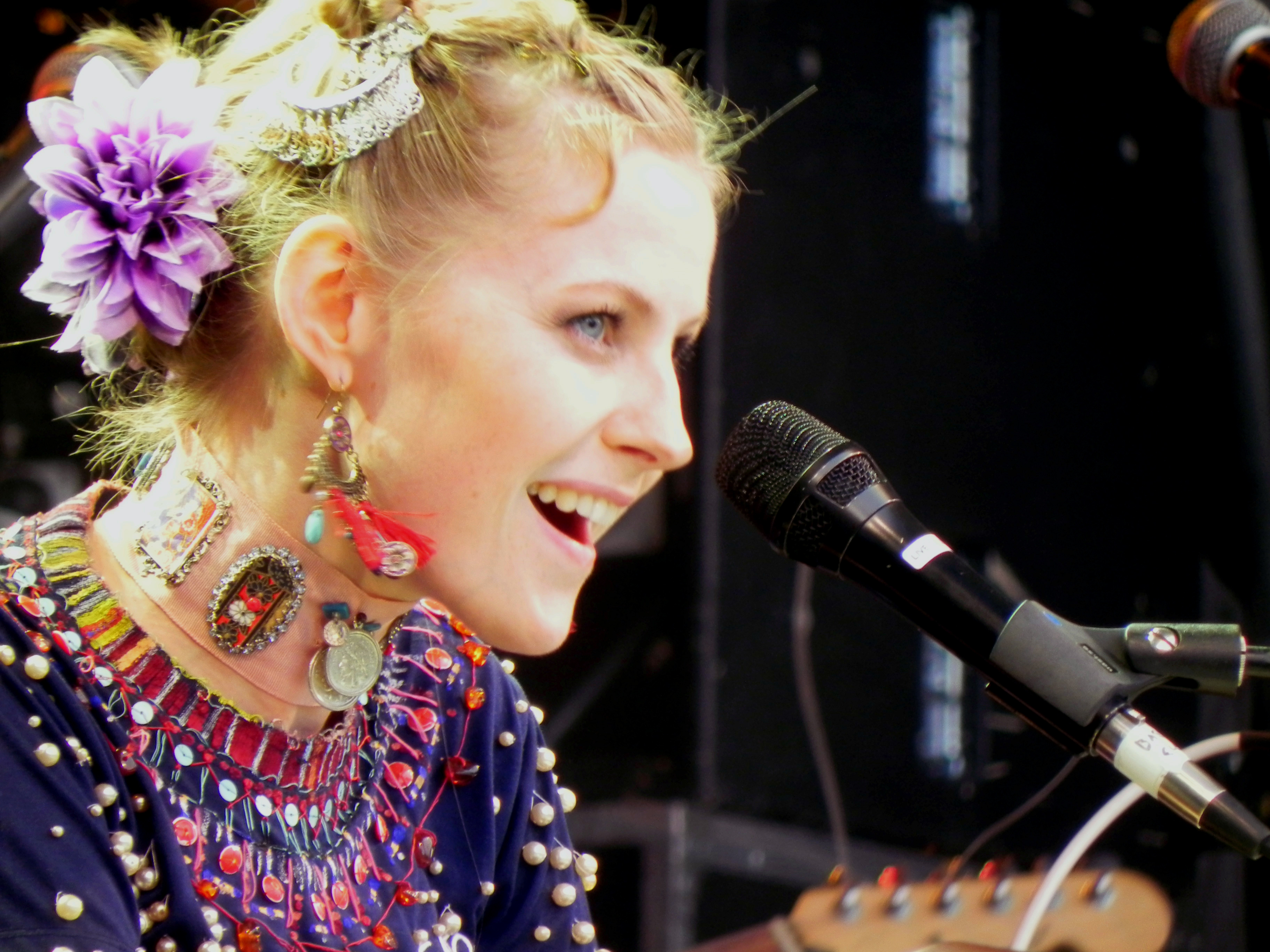 Edda Magnason performing with her band at Malmö Festival 2011